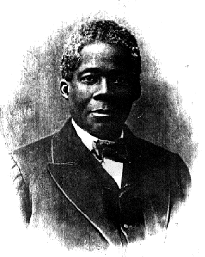 Edward Wilmot Blyden (1832−1912) — an educator, writer, journalist, politician, diplomat, and ambassador − primarily in Liberia. The father of Pan-Africanism, he was born in the Danish West Indies to Free Black parents. Blyden was refused admission to three theological seminaries in the Northern U.S. because of his race, so in 1850 he moved to Liberia, making his career and life there. Credits Taken from . The website states the image was first published in a book published in the United Kingdom in 1887.